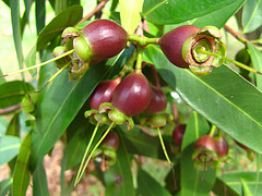 jambo green fruits